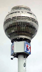 Picture taken by me for VCS on November 11, 2005.